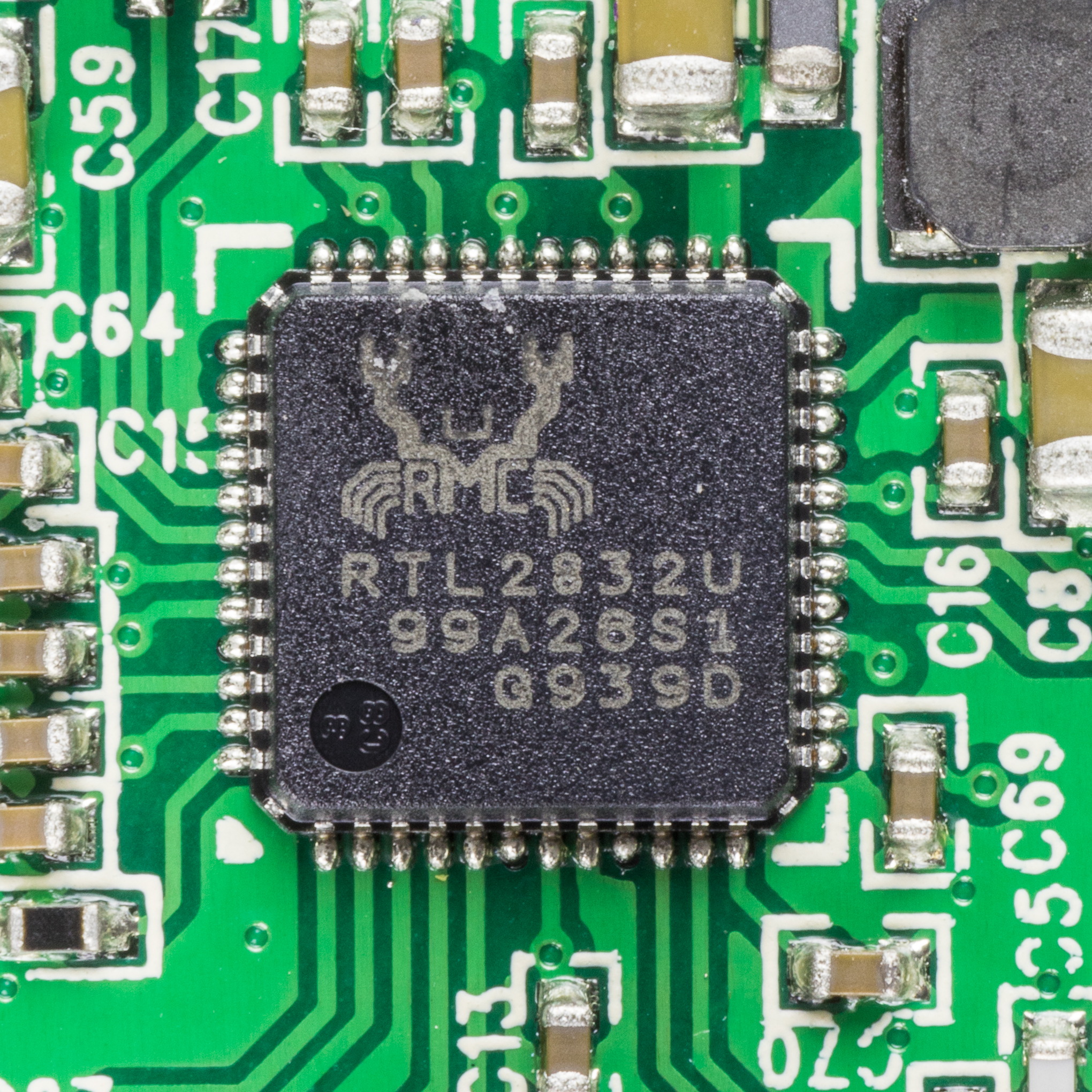 Msi DIGI VOX mini Deluxe - controller - Realtek RTL2832U - DVB-T COFDM Demodulator + USB 2.0